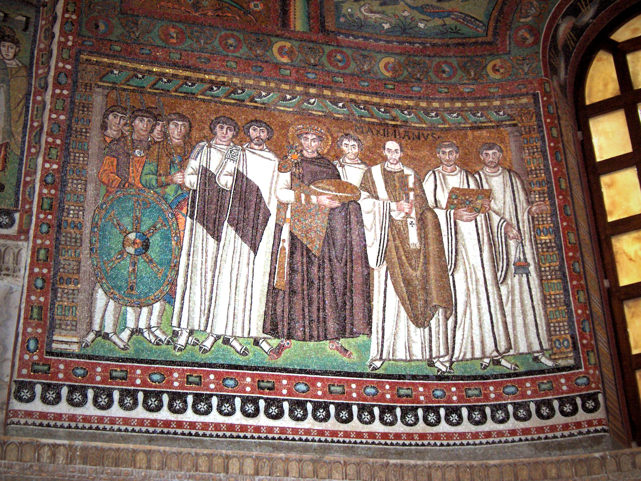 Court of Emperor Justinian with (right) archbishop Maximian and (left) court officials and Praetorian Guards; Basilica of San Vitale in Ravenna, Italy.